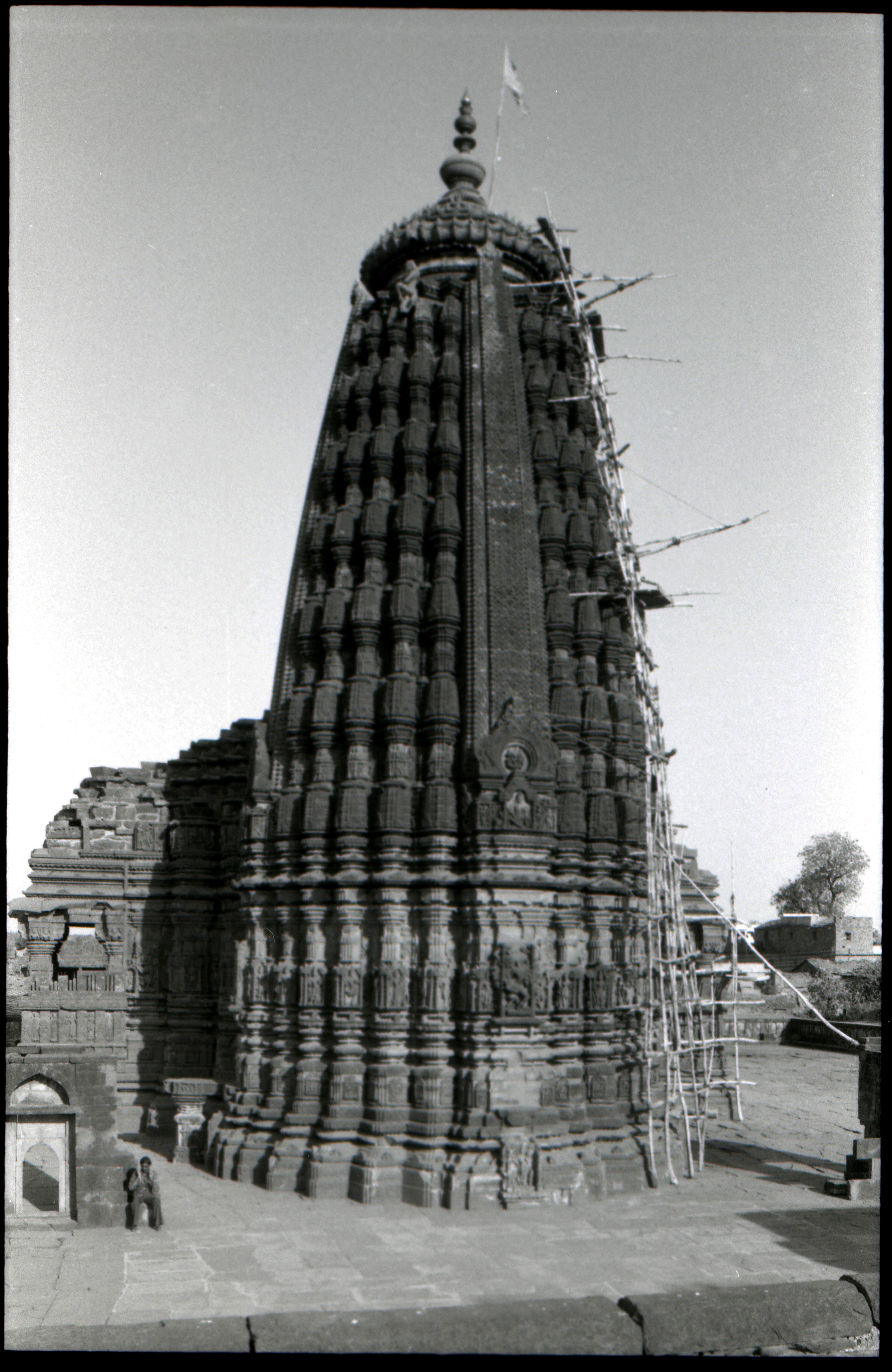 Udayeshvara temple, Śiva temple at Udaipur, Madhya Pradesh, from the west.